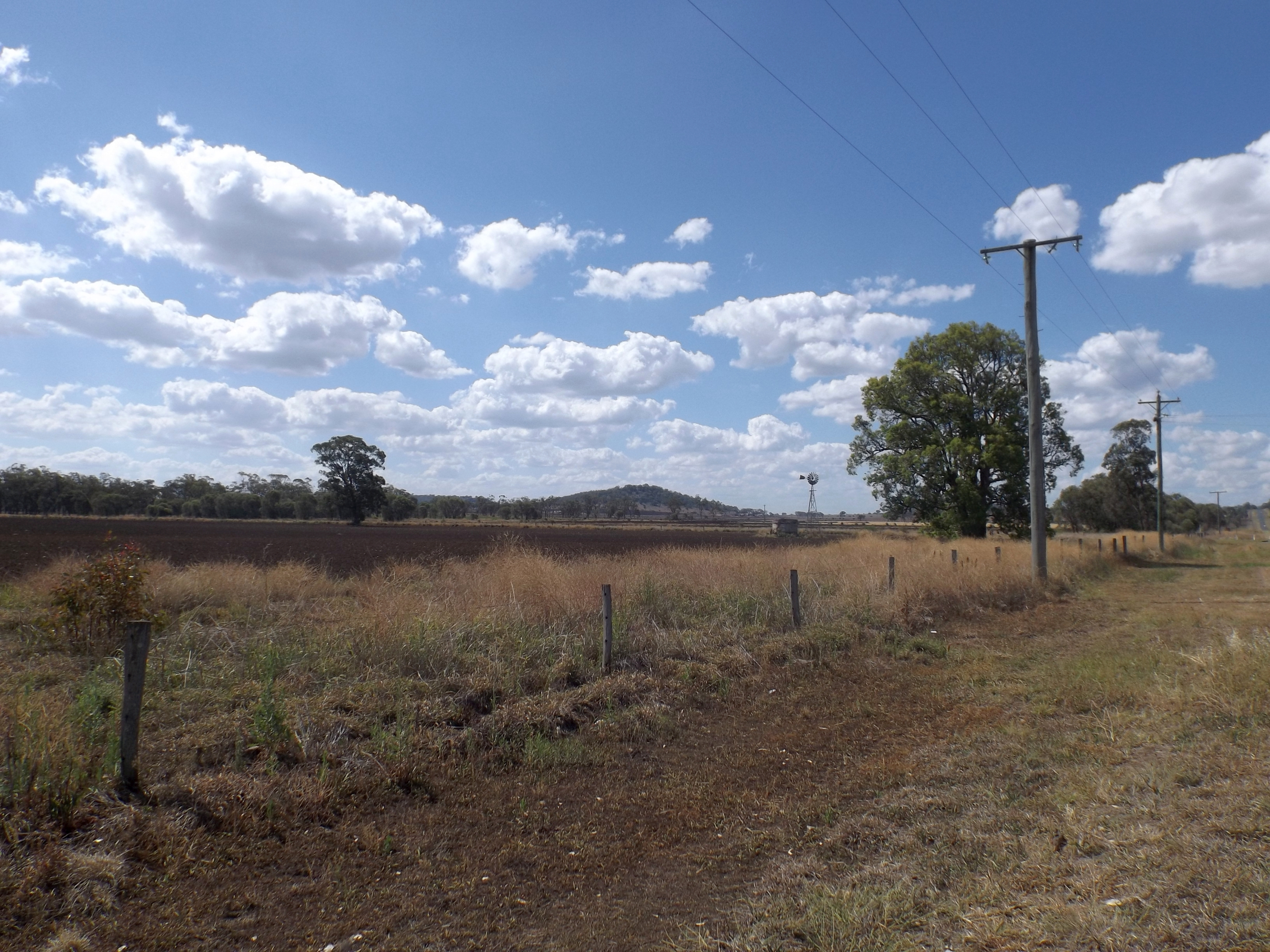 Photo of fields at Boodua in the Toowoomba Region local government area on the Darling Downs in Queensland, Australia